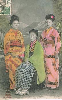 Karayukisan in Saigon